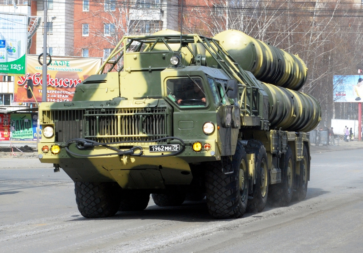 S-300P missile launcher 5P85D on parade in Russia.